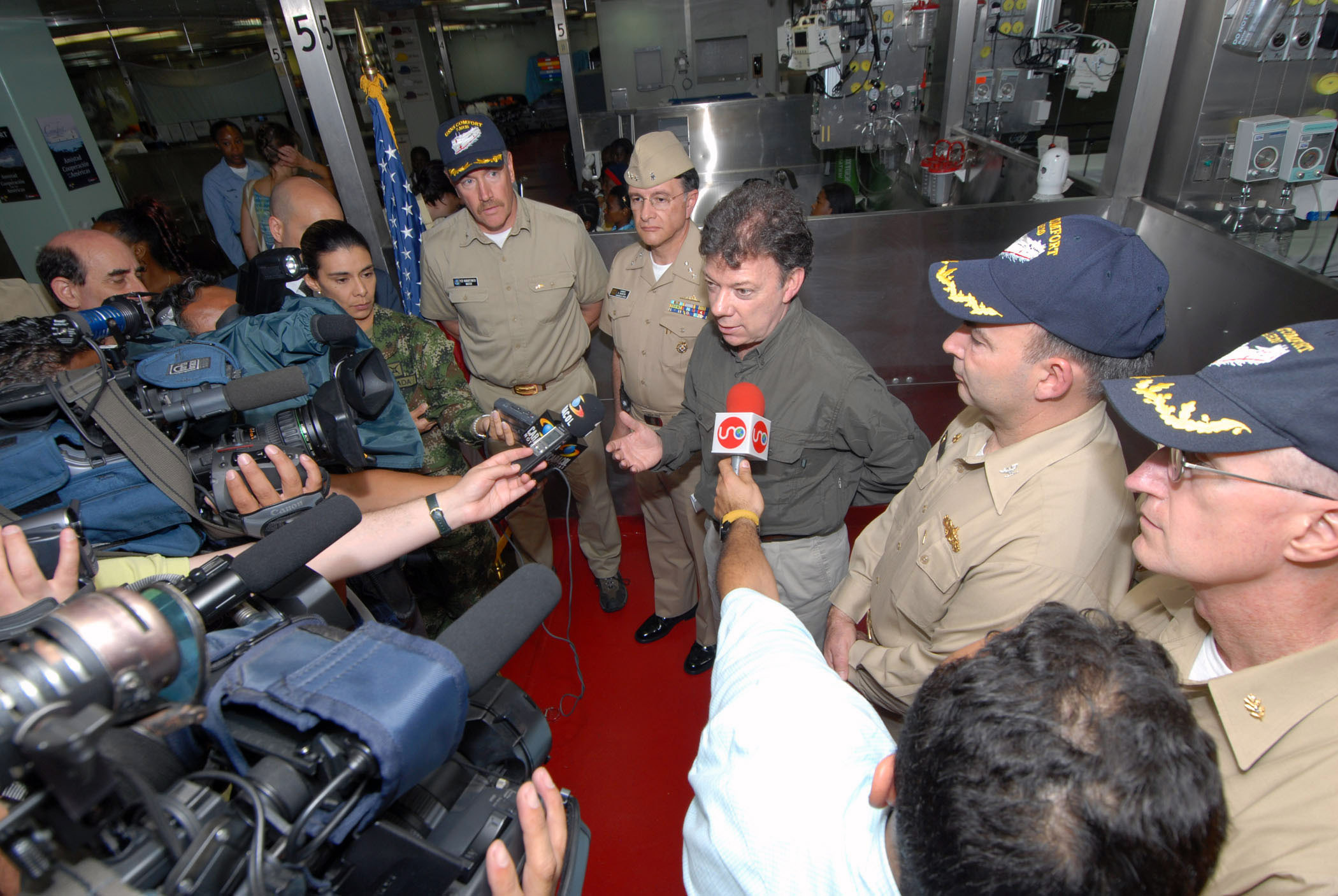 BAHIA MALAGA, Colombia (Aug. 26, 2007) – Members of the local media interview Columbian Defense Minister Juan Manuel Santos during a tour of the medical treatment facility aboard Military Sealift Command hospital ship USNS Comfort (T-AH 20). Comfort is on a four-month humanitarian deployment to Latin America and the Caribbean providing medical treatment to patients in a dozen countries. U.S. Navy photo by Mass Communication Specialist 2nd Class Joshua Karsten (RELEASED)